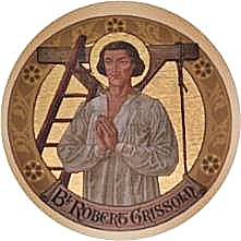 Der selige Robert Grissold aus England (+ 1604)